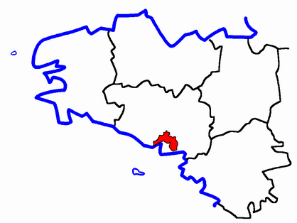 Description: Map for localisazion of cantons of Bretagne region in France Source: made by Hervé Tigier in april 2005 from another large map (published in 1990)